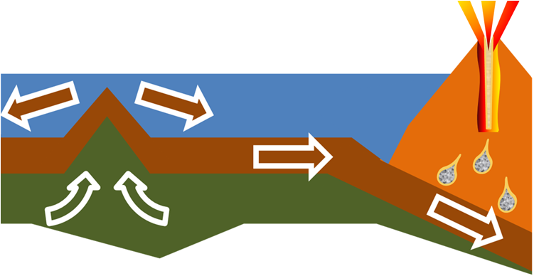 Accretion subduction of oceanic lithosphere